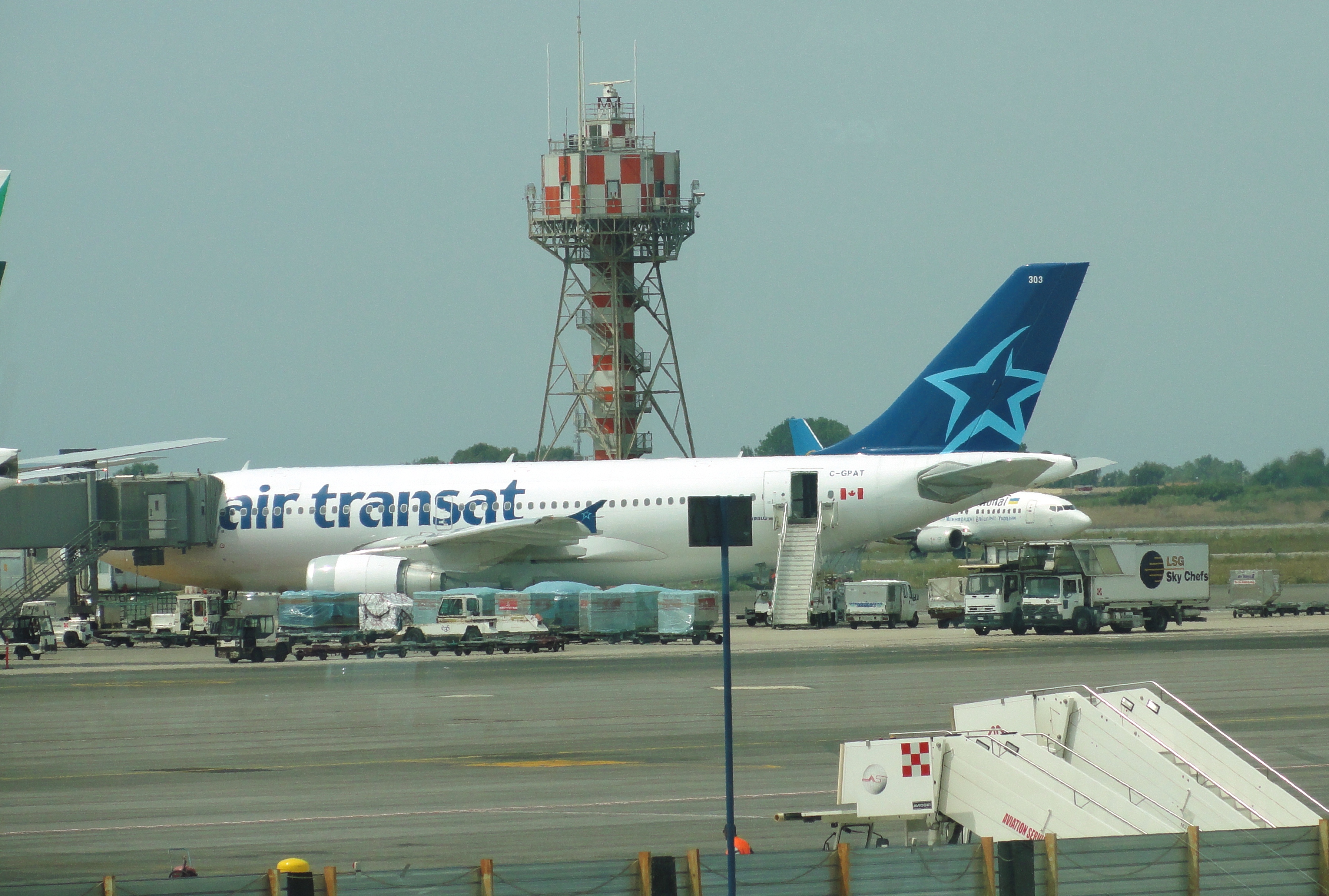 Air Transat Airbus A310-300 C-GPAT at Rome (FCO).